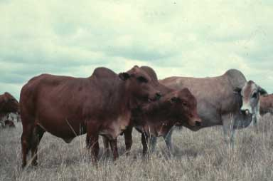 Boran cattle on a ranch in Kapiti, Kenya